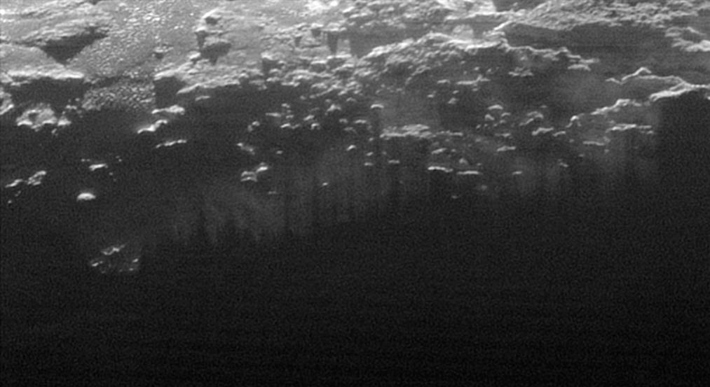 In this small section of the larger crescent image of Pluto, taken by NASA's New Horizons just 15 minutes after the spacecraft's closest approach on July 14, 2015, the setting sun illuminates a fog or near-surface haze, which is cut by the parallel shadows of many local hills and small mountains. The image was taken from a distance of 11,000 miles (18,000 kilometers), and the width of the image is 115 miles (185 kilometers).